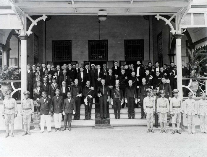 Public hearing in the residence of the Resident of the Western Department of Borneo in Pontianak.